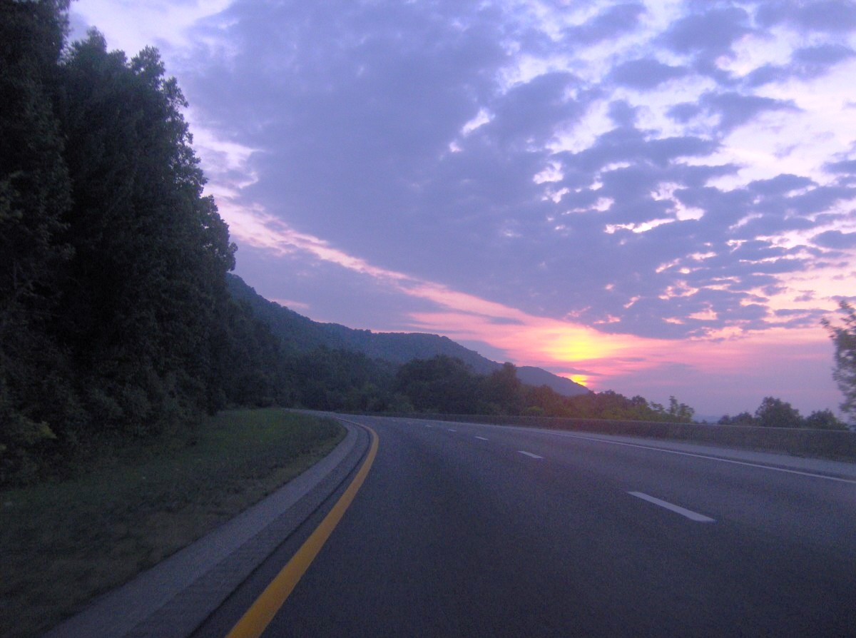 Interstate 40 descending the Walden Ridge escarpment of the Cumberland Plateau, near Rockwood, Tennessee, USA. The Tennessee Valley is below (out of view) on the right.